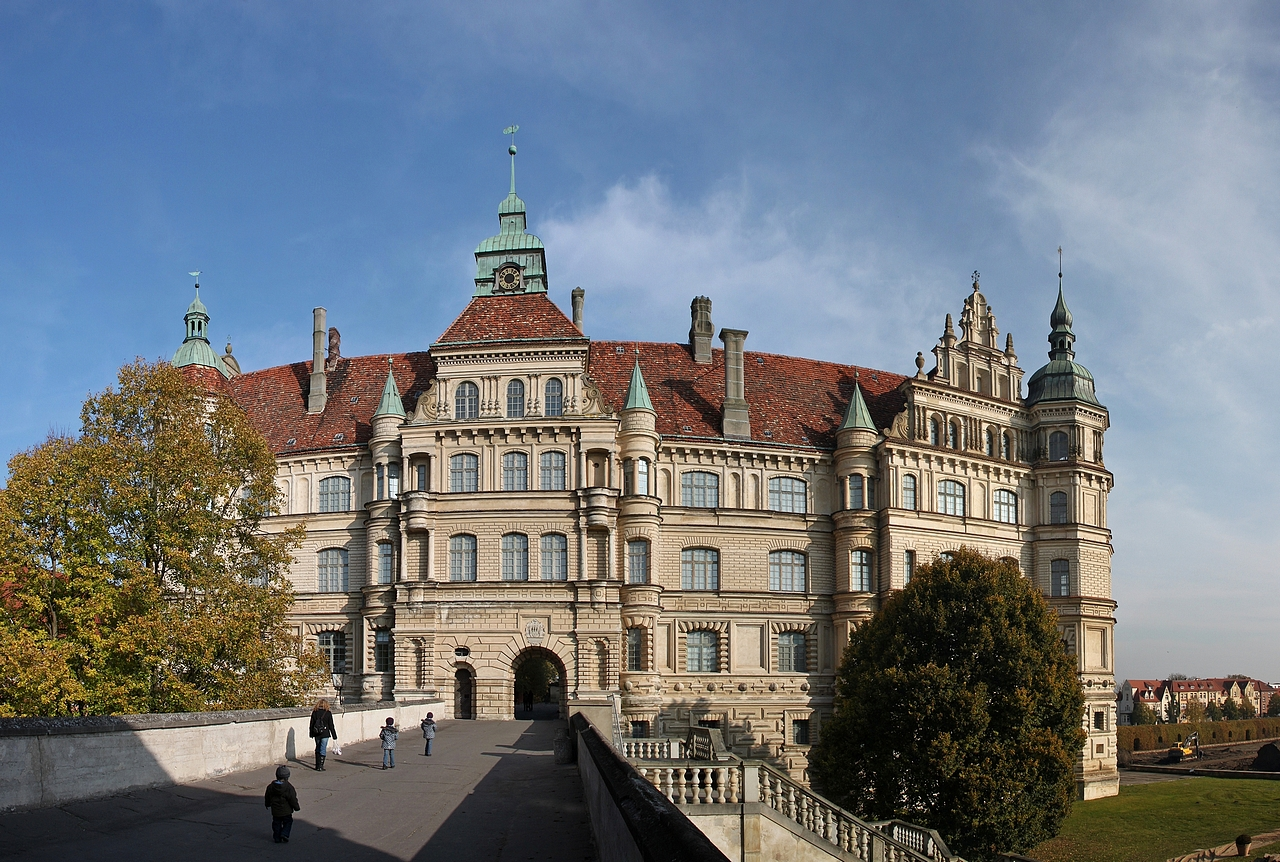 This photo shows Güstrow Castle, one of the most important Renaissance castles in northern Germany.